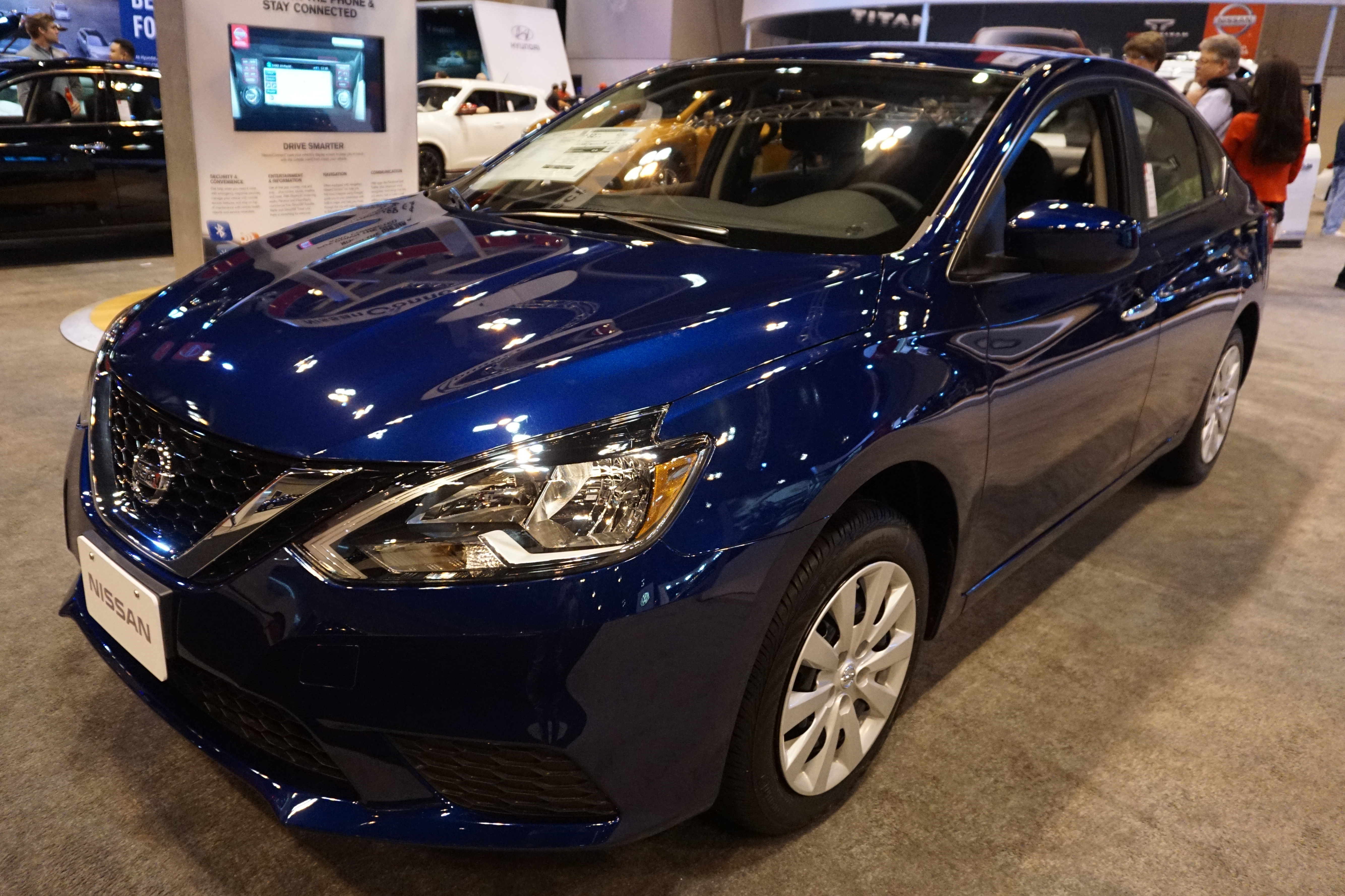 2016 Nissan Sentra